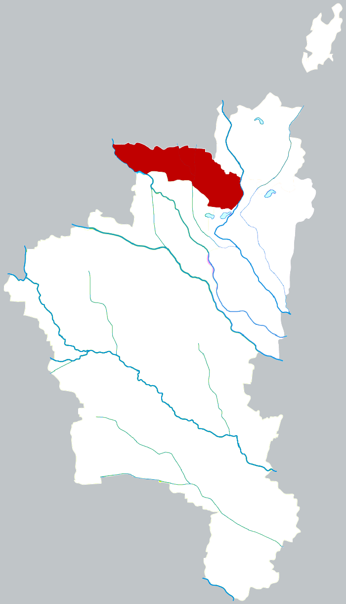 Location of Xiangshan district in Huaibei city, China